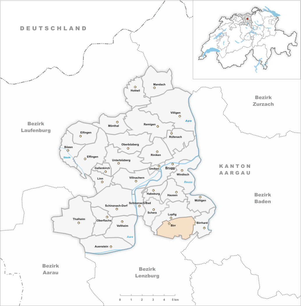 Municipality Birr